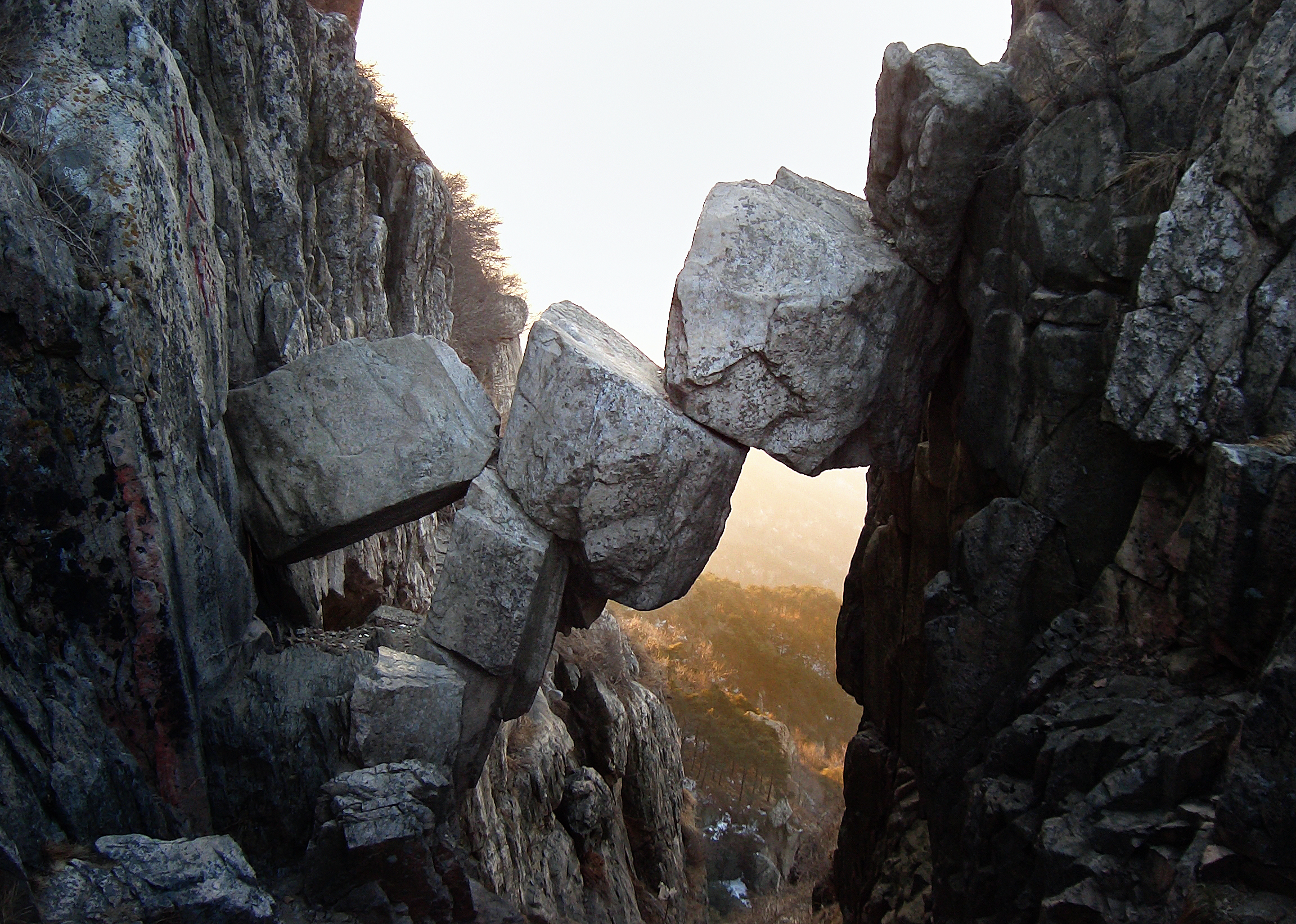 Immortal Bridge Original Image uploaded under